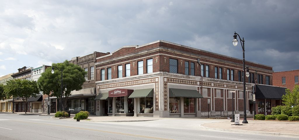 413-425 Broad Street in Gadsden, Alabama, part of the Gadsden Downtown Historic District.